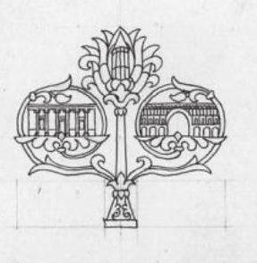 Emblem of the National Society of Iran. It features architectural forms from Avicenna's tomb in Hamedan, And sassanid and achaemenid architectural features on its branches.